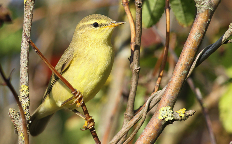 Phylloscopus trochilus (Phylloscopidae) (Willow Warbler) - (first calendar year), Vlieland - 4de Kroonspolder, the Netherlands